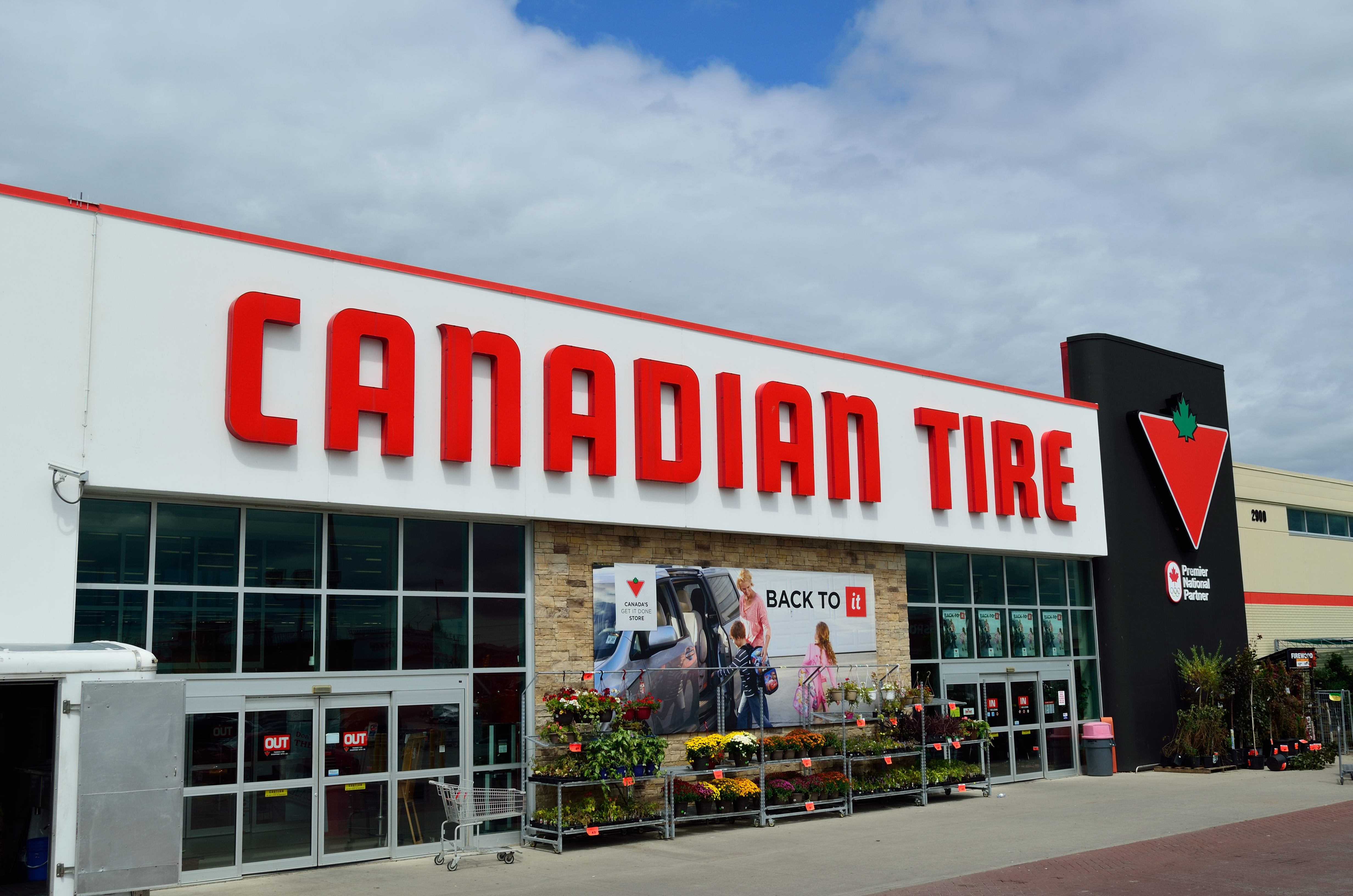 Canadian Tire - Address: 2900 Major Mackenzie Drive East, Markham, ON L6C 0G6, Canada